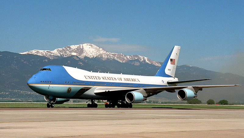 Air Force One at an unknown location.